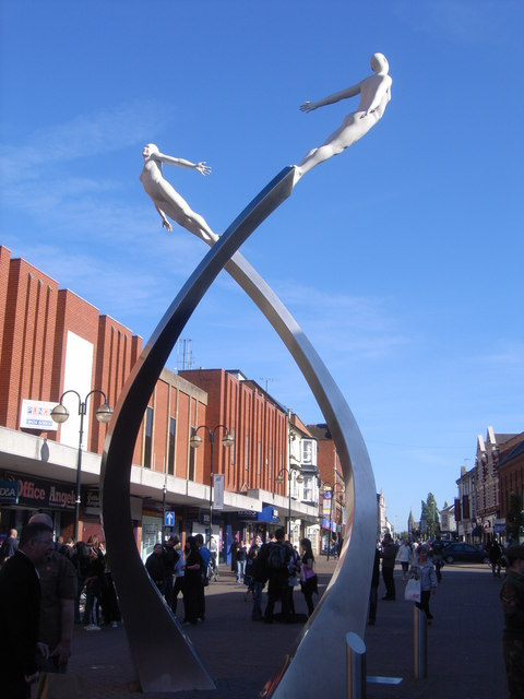 Francis Crick sculpture This sculpture, erected in December 2005, is dedicated to Francis Crick who was born in Weston Favell, Northampton and is viewed as one of the greatest British scientists of the 20th century. He was awarded the Nobel Prize in 1962 and the Order of Merit in 1991.